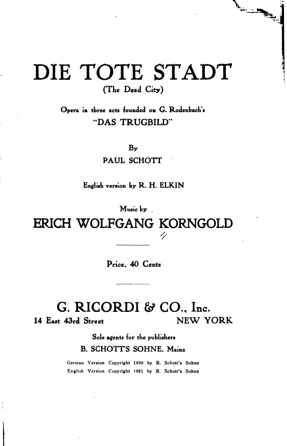 Die Tote Stadt: The Dead City : Opera in Three Acts Founded on G. Rodenbach's "Das Trugbild", 95 pages